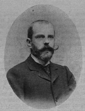 Portrait of Béla Harkányi